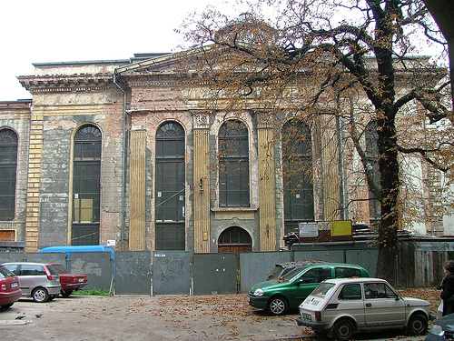 White Stork Synagogue in Wrocław